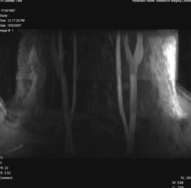 Test image of my own Carotid artery using Maximum Intensity Projection on a SIEMENS 3T scanner at the RIC at UT Health Science Center in San Antonio. The intensity flare on the right side is probably due to a defect with one of the carotid coils we were using. The horizontal lines would seem to be Venetian Blind artifacts in my guessing.